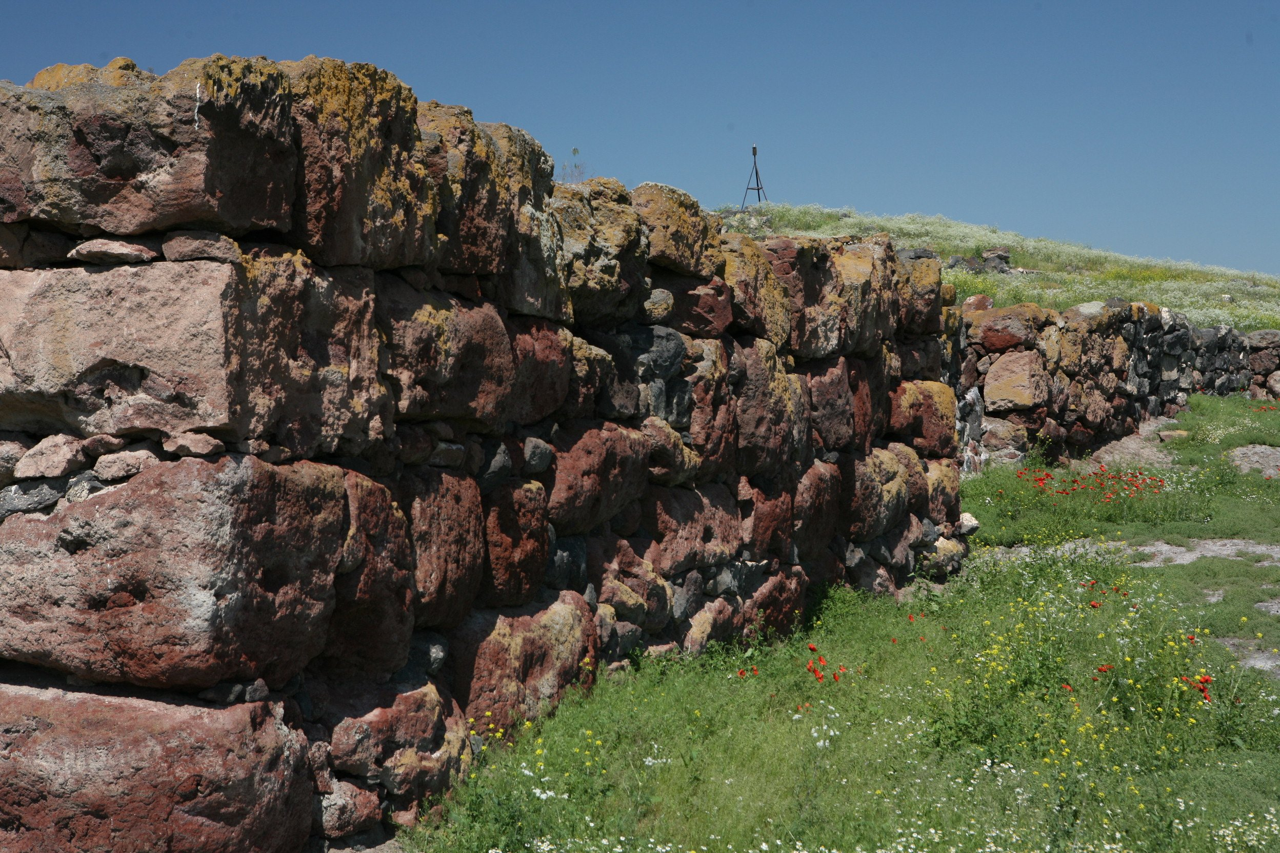 The Stone Wall of Metsamor